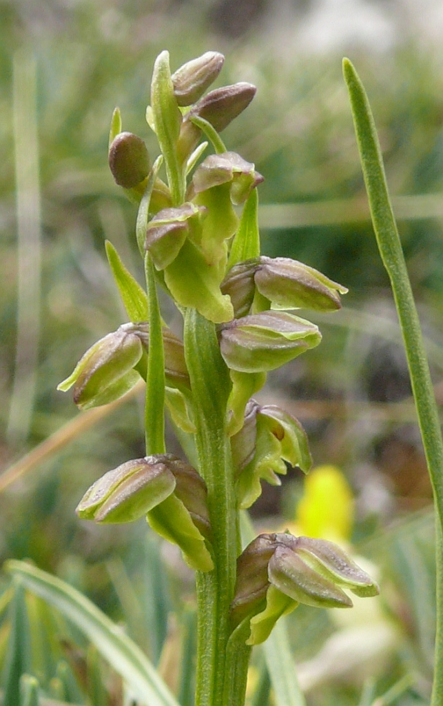 Chamorchis alpina, Naturpark Puez-Geisler, Italien